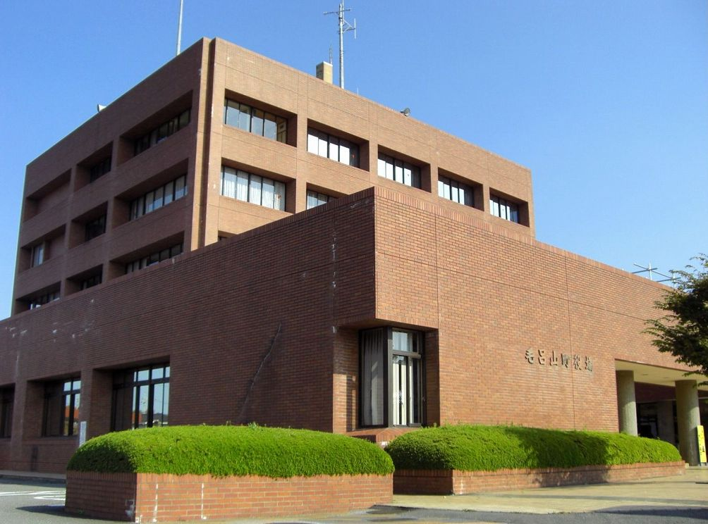 Moroyama Town Hall, Moroyama, Saitama, Japan